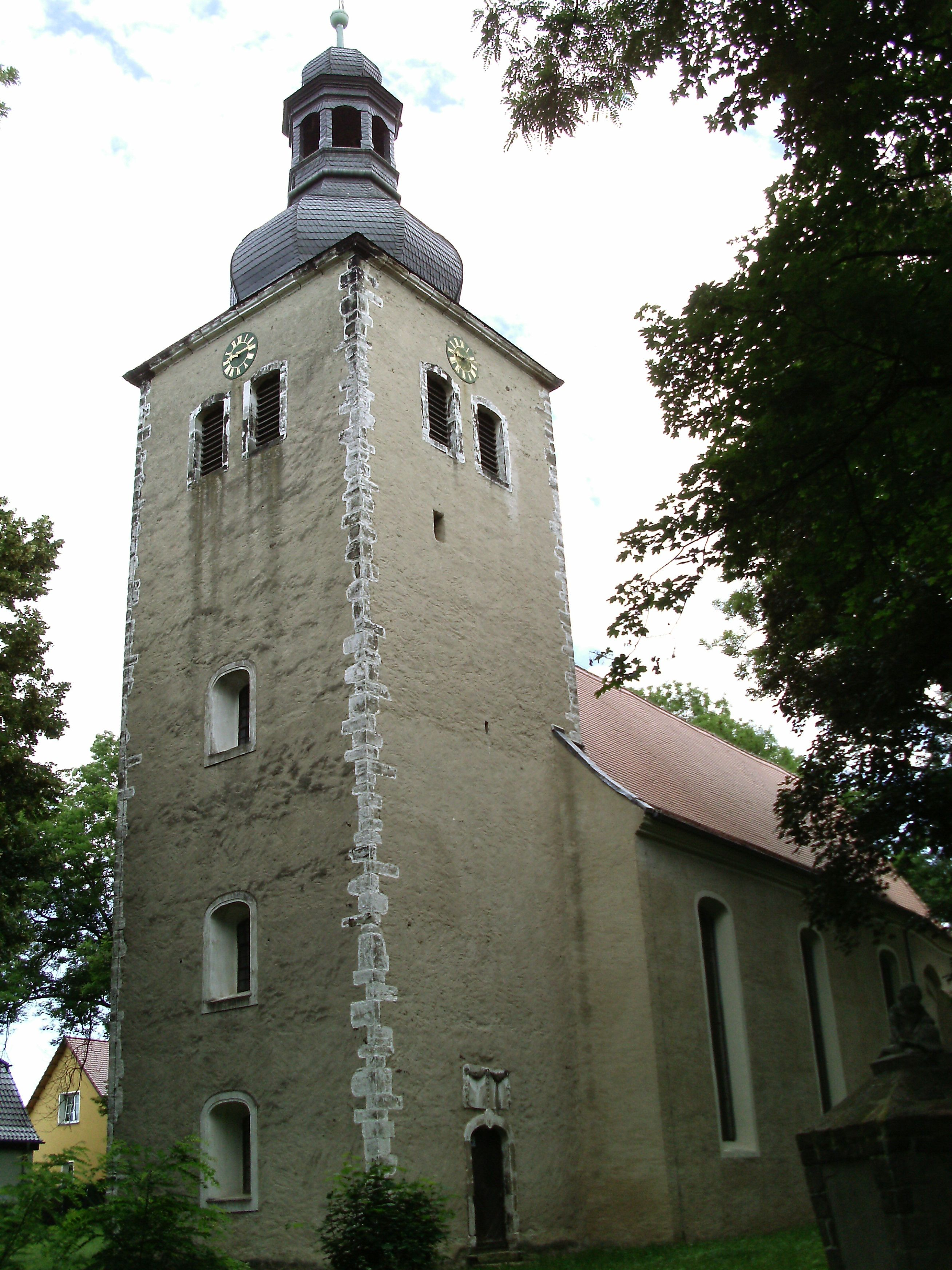 Gollma church (Landsberg, district of Saalekreis, Saxony-Anhalt)